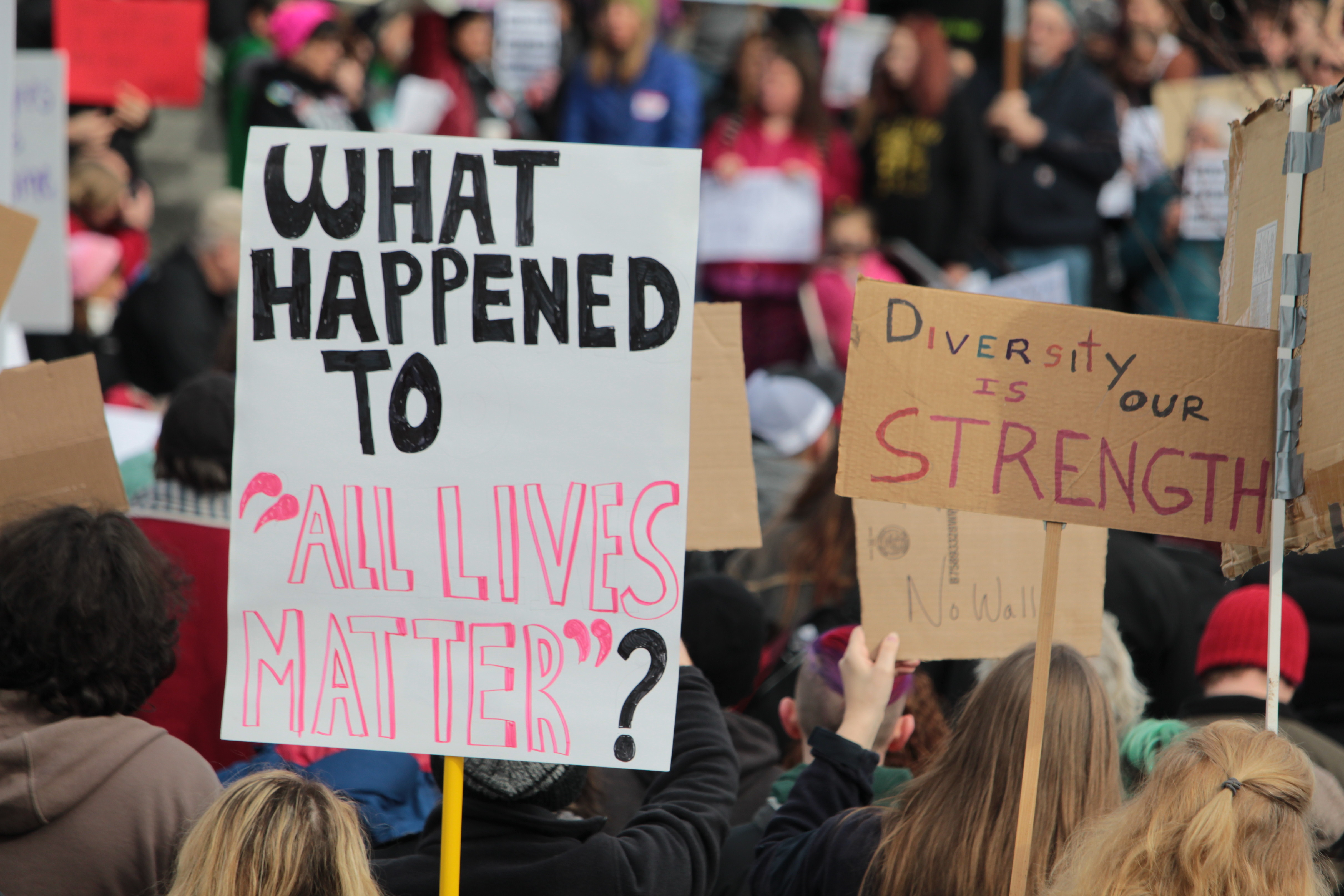 Over 1000 Gathered at the Federal Court in Eugene, Oregon to protest Trump's Immigration Ban